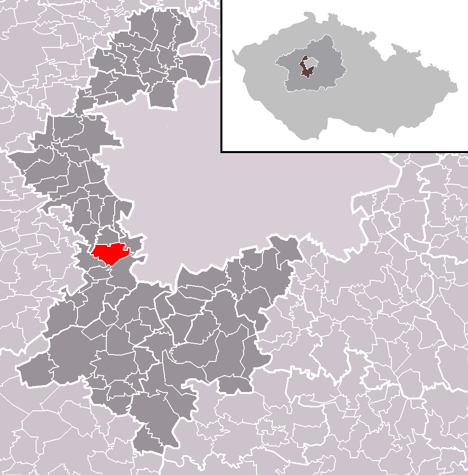 Location of Třebotov municipality within Prague-West District and administrative area of Černošice as a Municipality with Extended Competence.